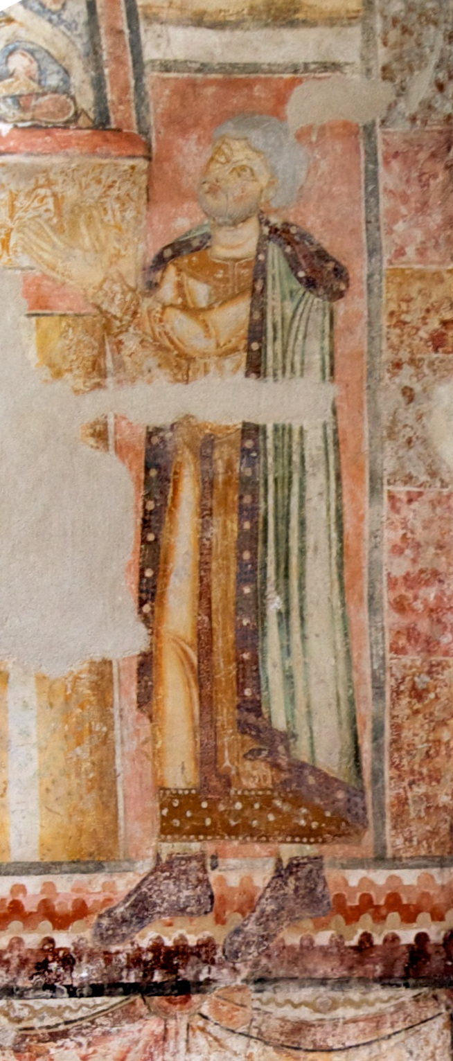 Fresco in Pürgg, AT, 12 century